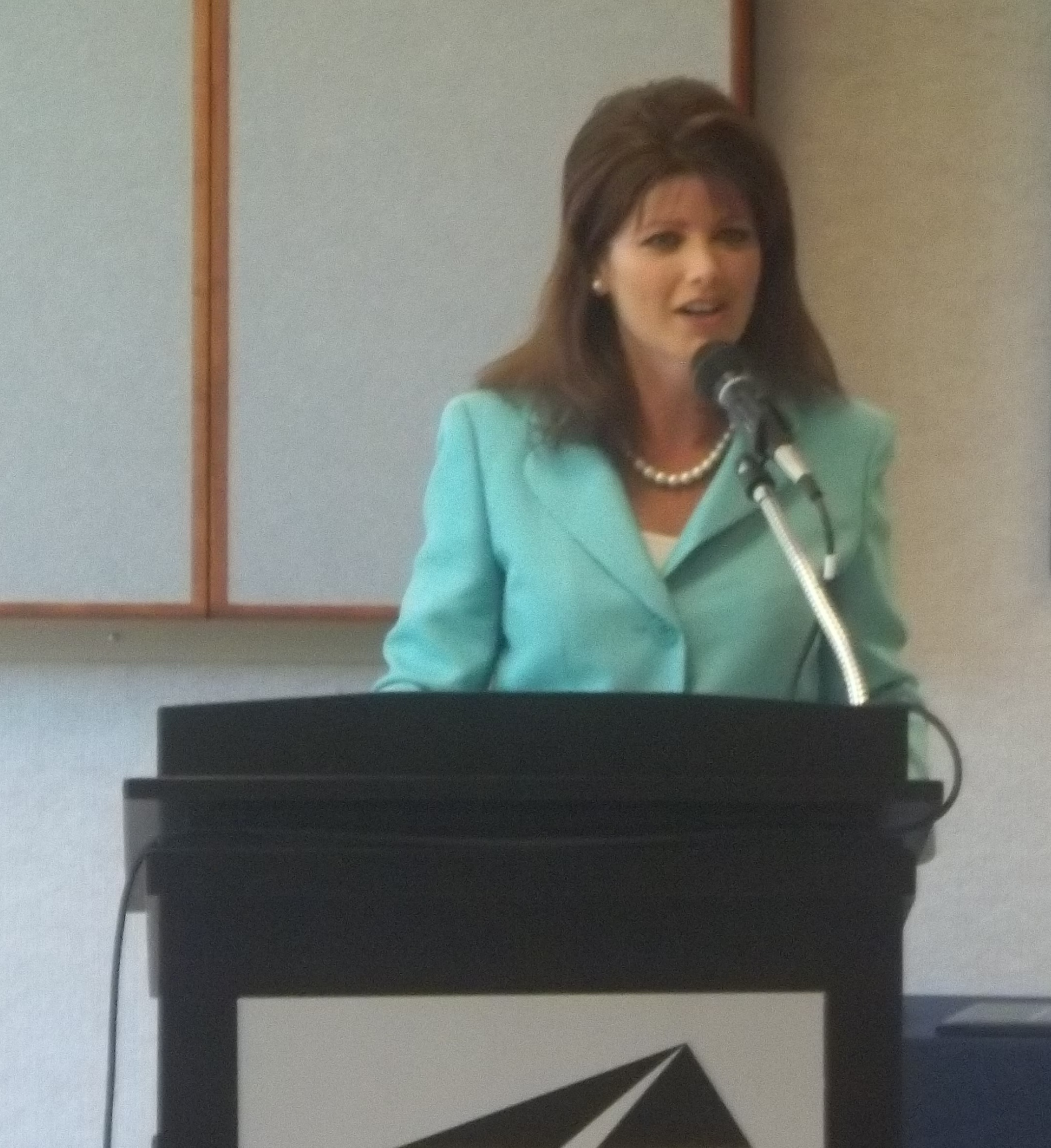 Wisconsin Lt. Governor Rebecca Kleefisch visited Lakeshore Technical College to make a major announcement affecting five area companies and their nearly 1,600 employees on Wednesday, August 24, 2011.